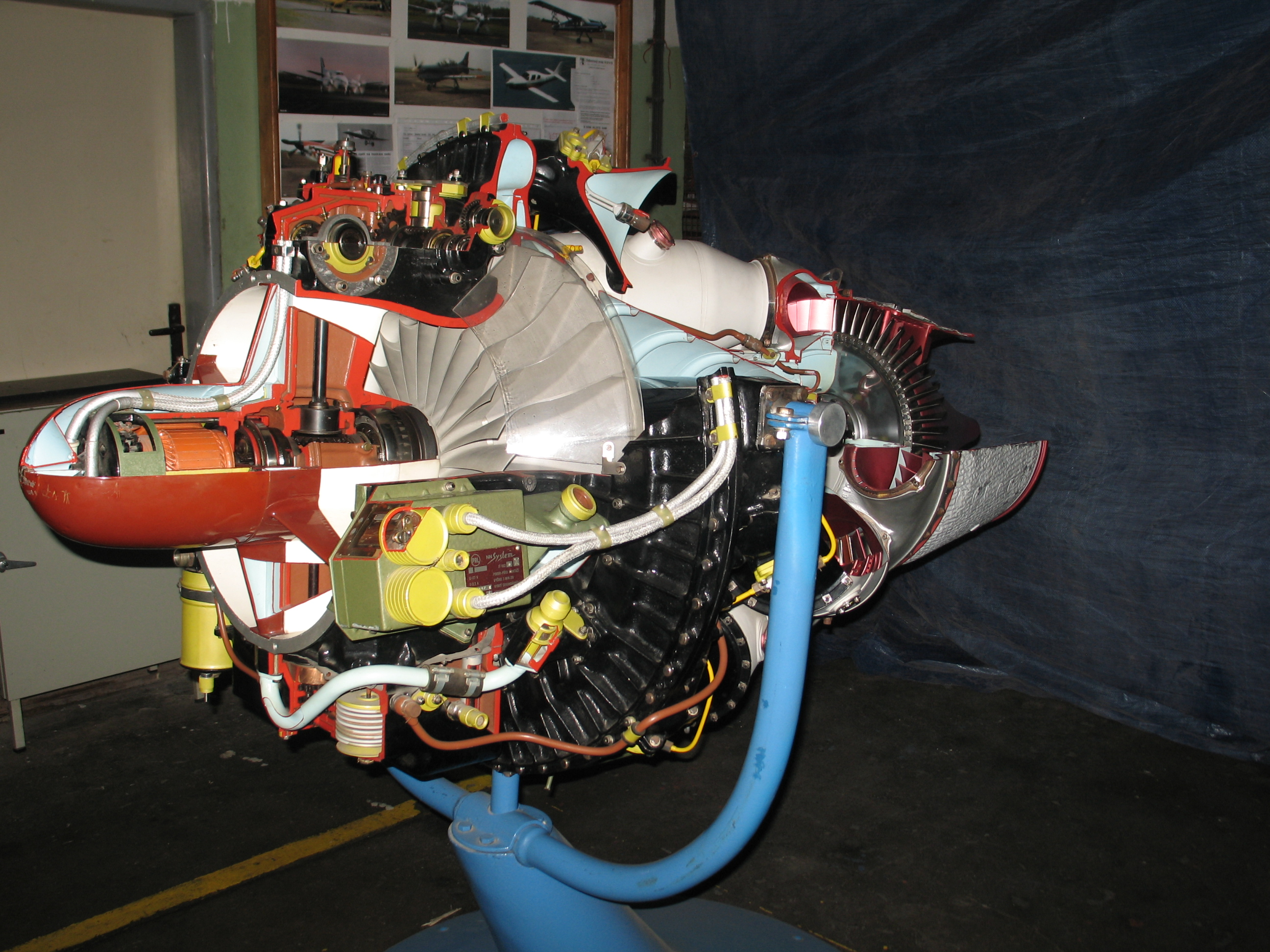 Partially sectioned turbojet engine Walter M701